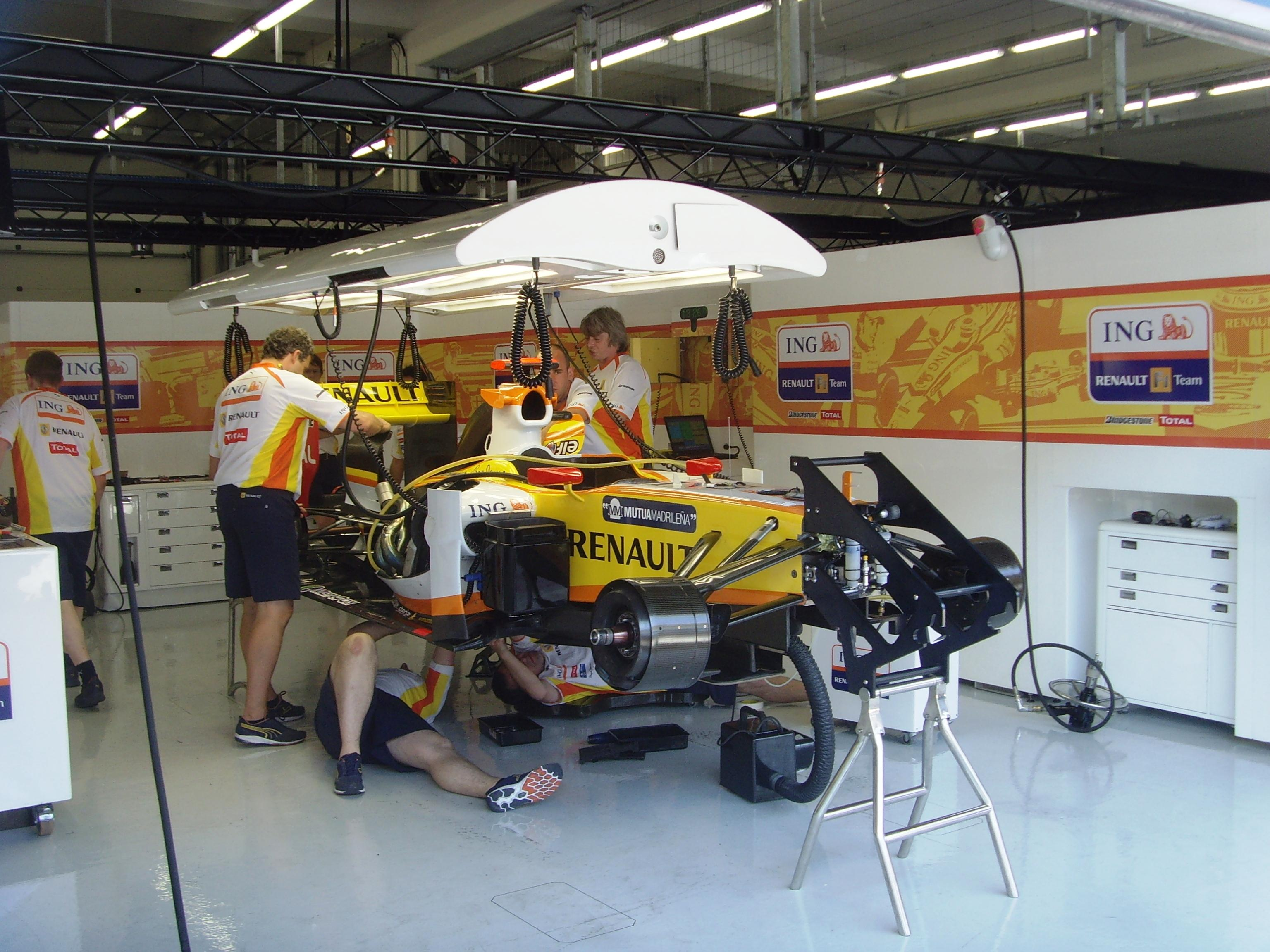 Mechanics working on Fernando Alonso's Renault R29 during practices on Friday of 2009 Turkish Grand Prix weekend.